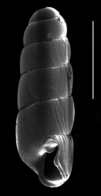 SEM image of paratype of Gulella streptostelopsis. The height of the shell is 2.21 mm. Scale bar is in mm.